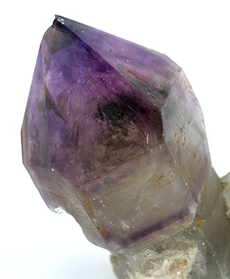 Quartz Locality: Eonyang, Gyeongsangnam-do (Kyongsang-namdo), South Korea (Locality at ) Size: miniature, 5 x 5 x 3 cm Amethyst scepter Bill Sanborn's collection was noted for an extensive suite of Asian minerals, and this is as superb a specimen for the classic old Korean amethysts as any I have seen. It is a very aesthetic, balanced, choice miniature, complete all around. There is a minor ding in each termination, but it still displays very nicely, I think, and the balance of the piece distracts the eye from the two admitted dings atop (though reduce the price, they must!). Interestingly, the crystals are slightly included by geothite, according to the label. Visually, the stunning translucent gem purple sceptres contrast markedly with the stalks...again, a true classic example for this locality, just like wha tyou would see in old books.